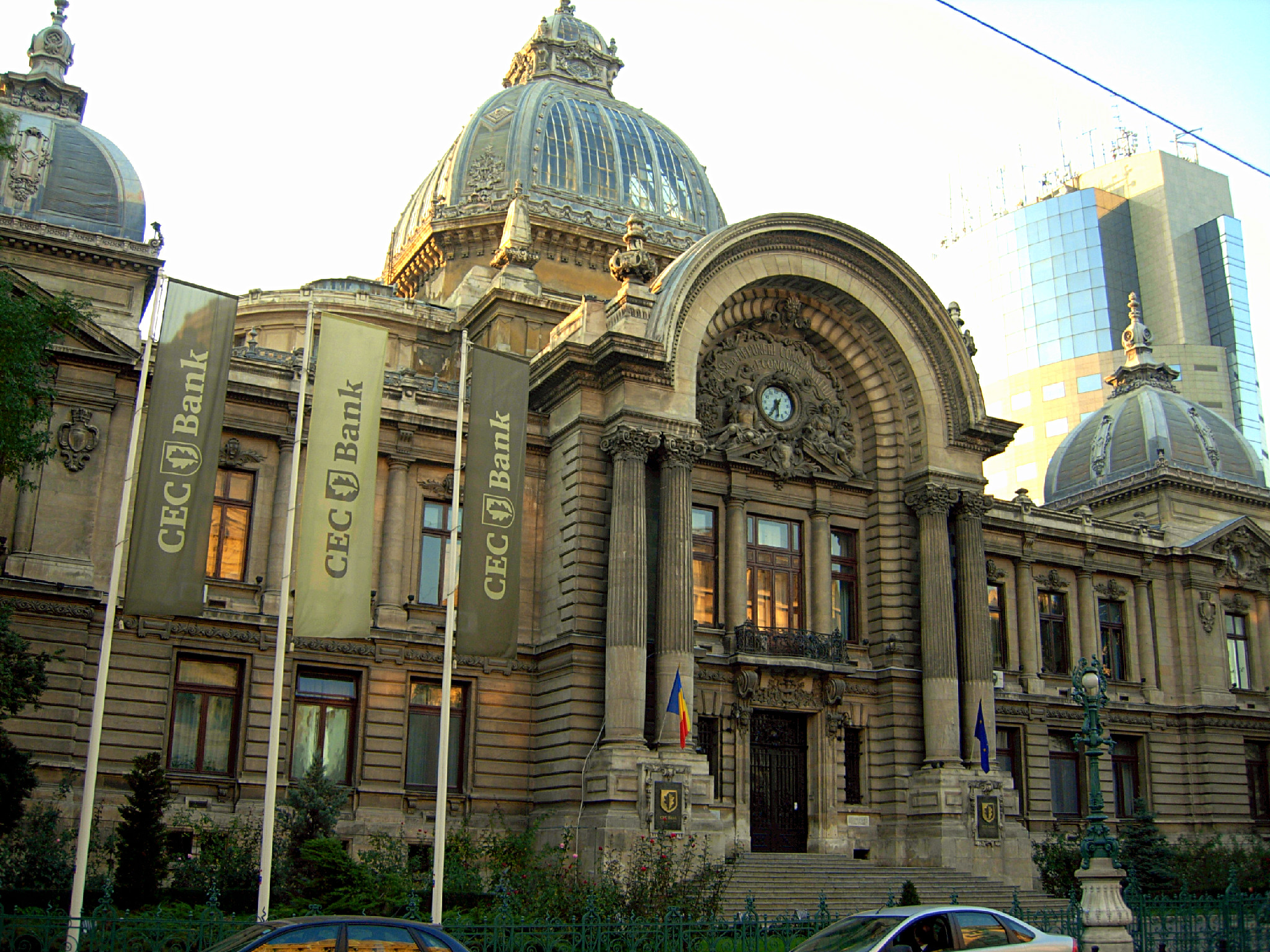 CEC Palace, Bucharest